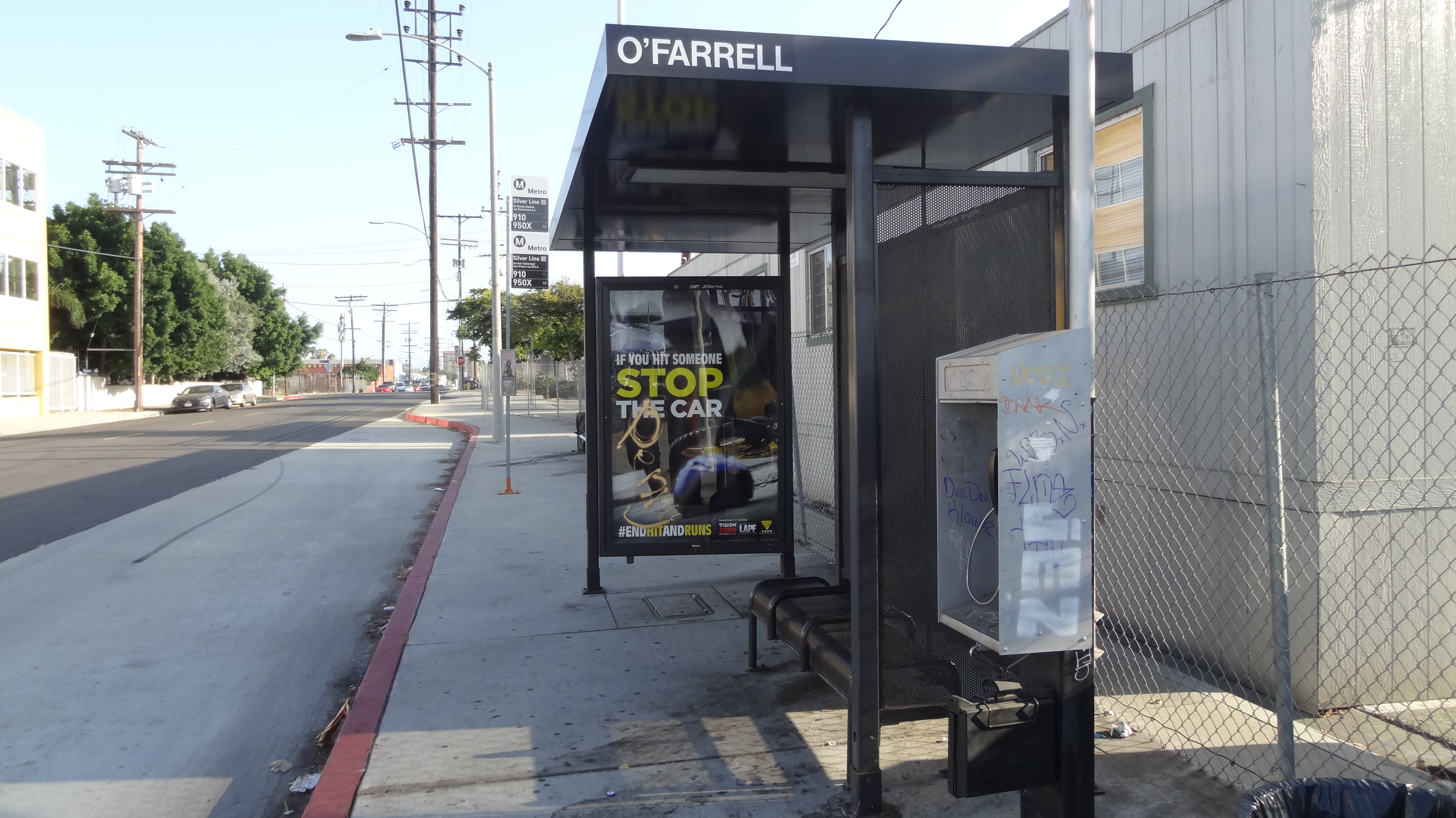 Harbor Beacon Park Ride, Metro Silver Line Stop